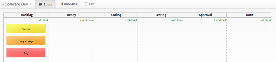 Kanban Board for software development teams